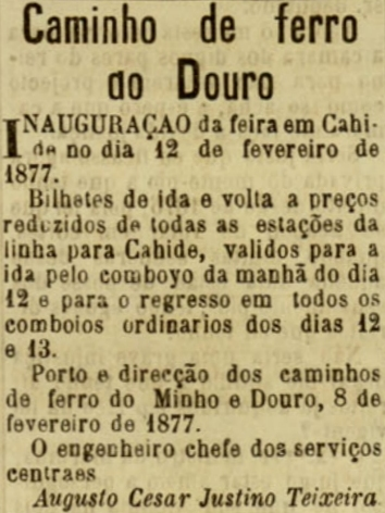 Advertisement of the Caminho de Ferro do Minho e Douro (Portuguese Minho and Douro Railway) for discounts to Caíde, to a fair. This station appears with the original name, "Cahide". This image was published on the Diario Illustrado newspaper No. 1468, of 15th February 1877, and scanned by the Biblioteca Nacional de Portugal.